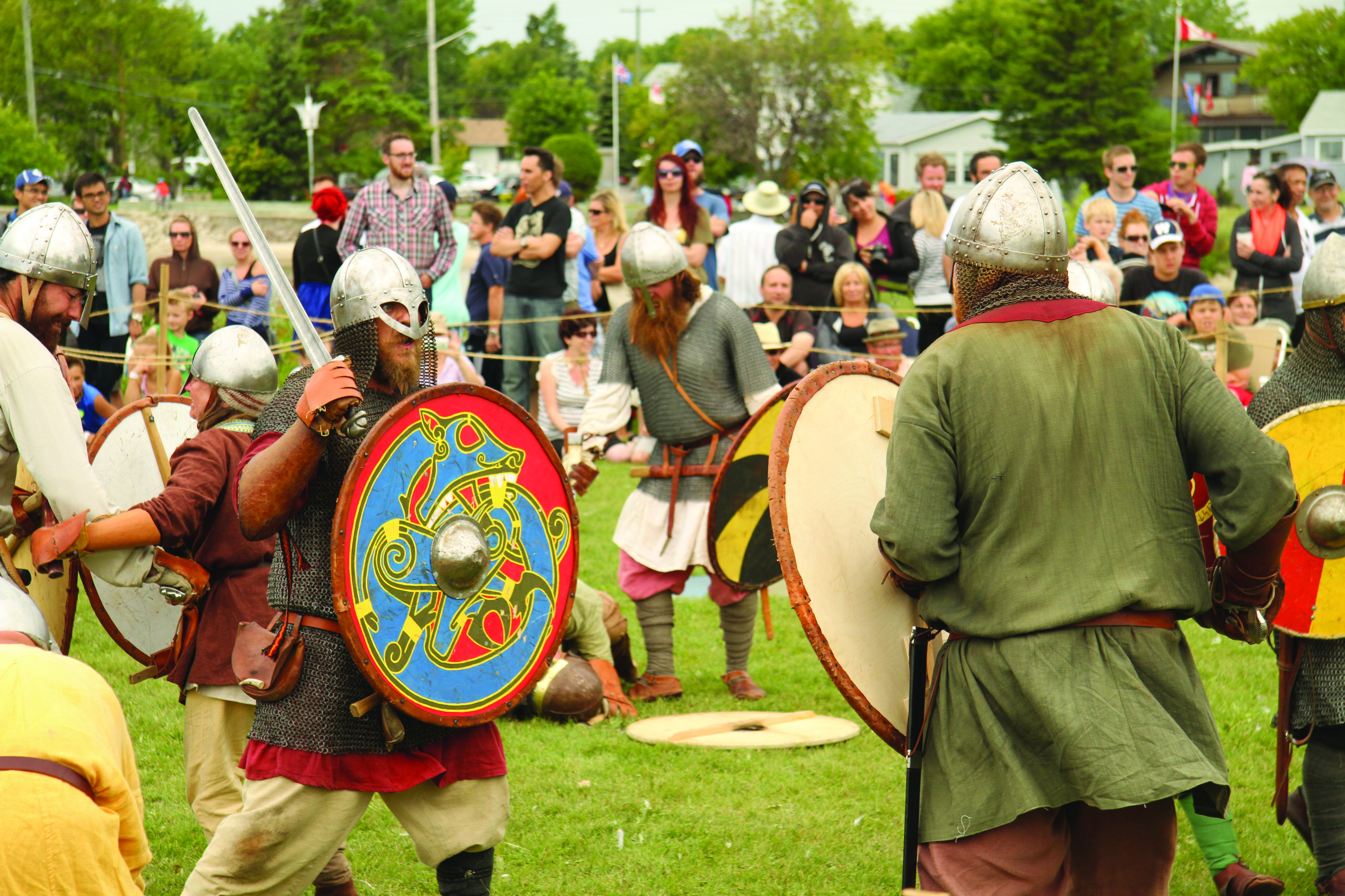 Photo Credit: Travel Manitoba